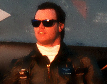 Chicago Bears football team quarterback Jim McMahon poses in front of an F-16B Fighting Falcon aircraft during his visit to the base as guest speaker at the Electronics Systems Division banquet at Hanscom Air Force Base, Massachusetts. Exact Date Shot Unknown.